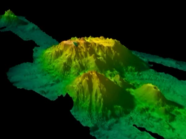 "This three-dimensional rendition of a bathymetric map shows Patton Seamount, a Gulf of Alaska seamount we visited in 1999, with two smaller seamounts in the foreground. Deep areas are blue, and shallow areas are red."